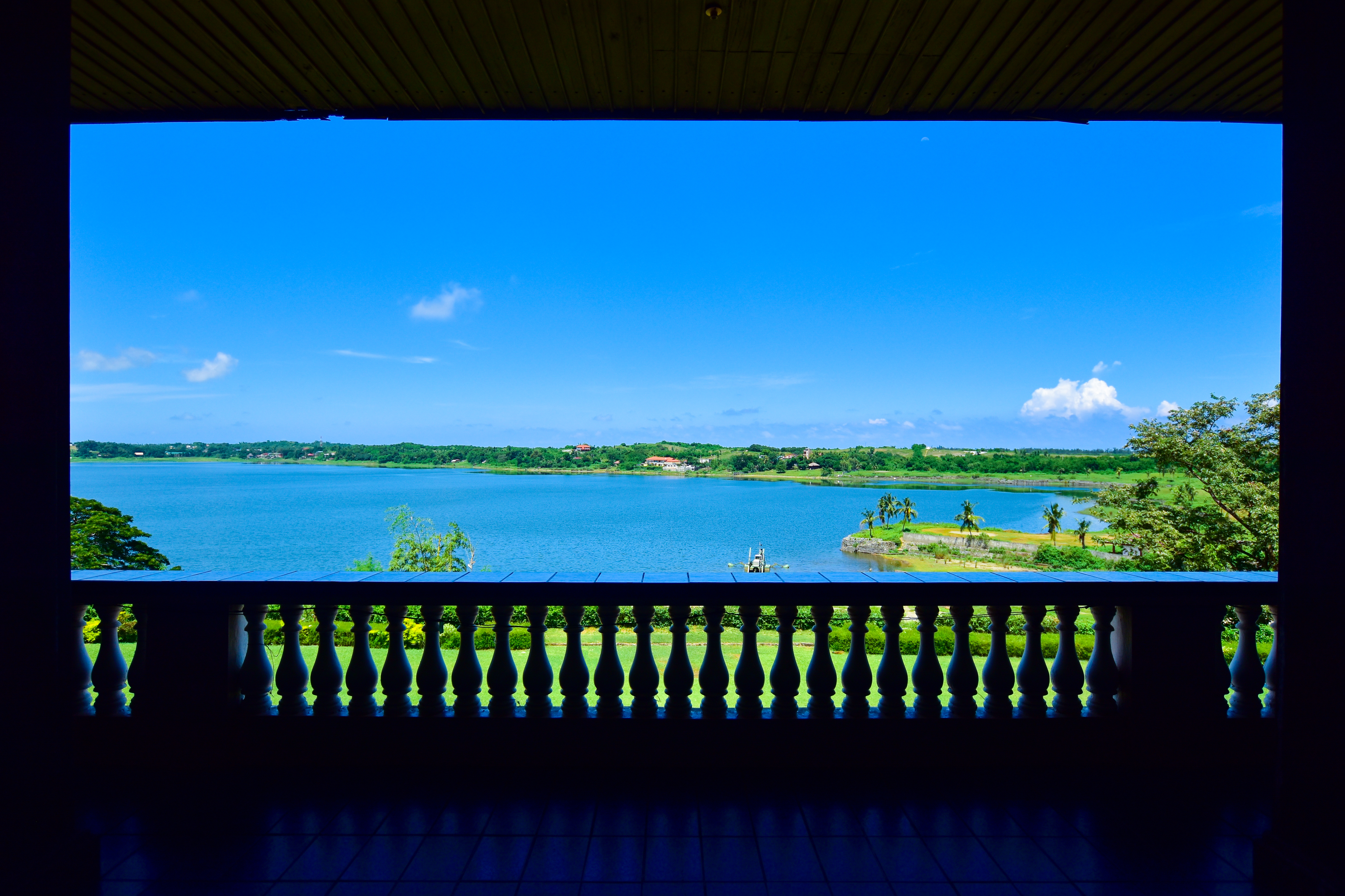 Paoay Lake, declared as a national park on June 21, 1969, also known as Lago de Nanguyudan or Dacquel a Danum, is a mysterious horseshoe-shaped lake in the municipality of Paoay.